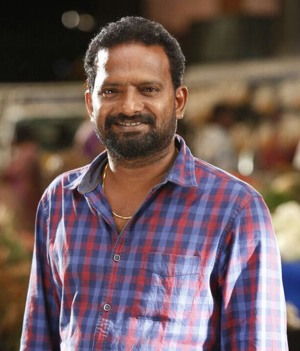 An indian Film Director